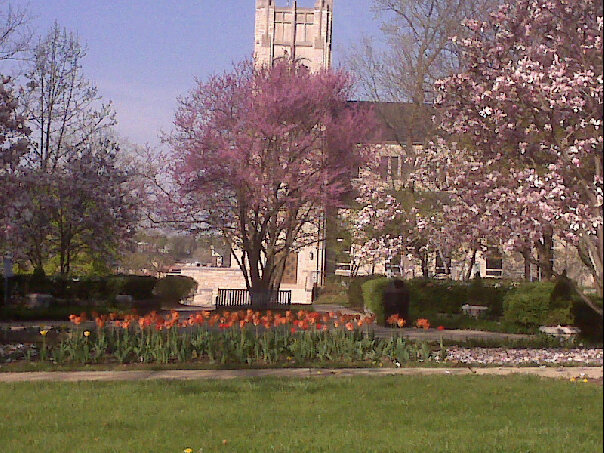 Baker Park, west / north corner Illinois Route 64 at Illinois Route 25, downtown St Charles Illinois